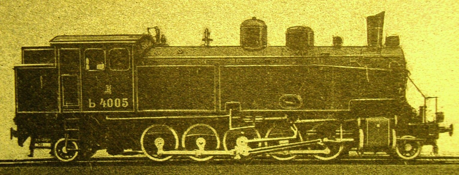 Russian tank loc Yer' series by Skoda at Chinese Eastern Railway